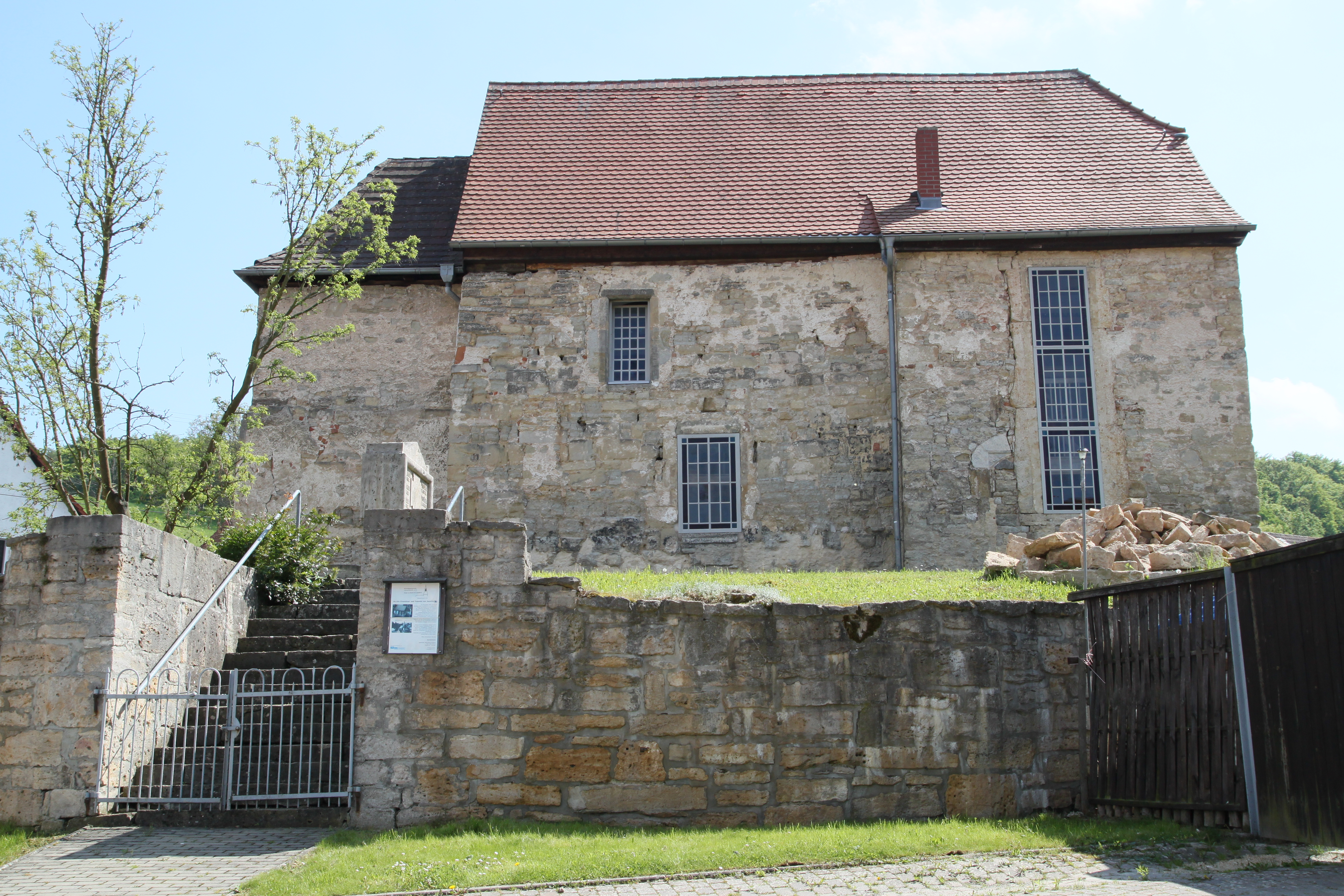 St.Katharina